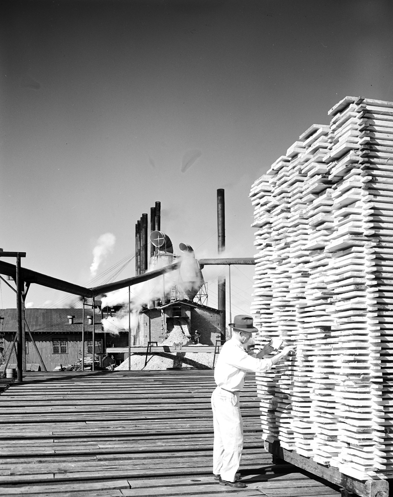 Title: [Lumber Yard, Employee Examining Drying Lumber, Texas & Pacific Railway Company] Creator: Richie, Robert Yarnall, 1908-1984 Date: ca. 1946 Series: 6: Negatives and Color Transparencies/field/series/; Series: 2869/field/series/ Part of: Yarnall Richie photograph collection/field/part/ Place: Marshall, Harrison County, Texas Description: A Lumber yard employee examining freshly cut planks which have been left to air-dry in a process called 'stickering'. Stickers are small boards, specially cut for this process, and inserted between each plank layer to allow for adequate air flow so the wood dries properly. Physical Description: 1 negative: film, black and white; 12.6 x 10.1 cm File: ag1982_0234_2869_016_texaspacificrailway_sm_opt.jpg Rights: Please cite DeGolyer Library, Southern Methodist University when using this file. A high-resolution version of this file may be obtained for a fee. For details see the web page. For other information, . For more information and to view the image in high resolution, View the